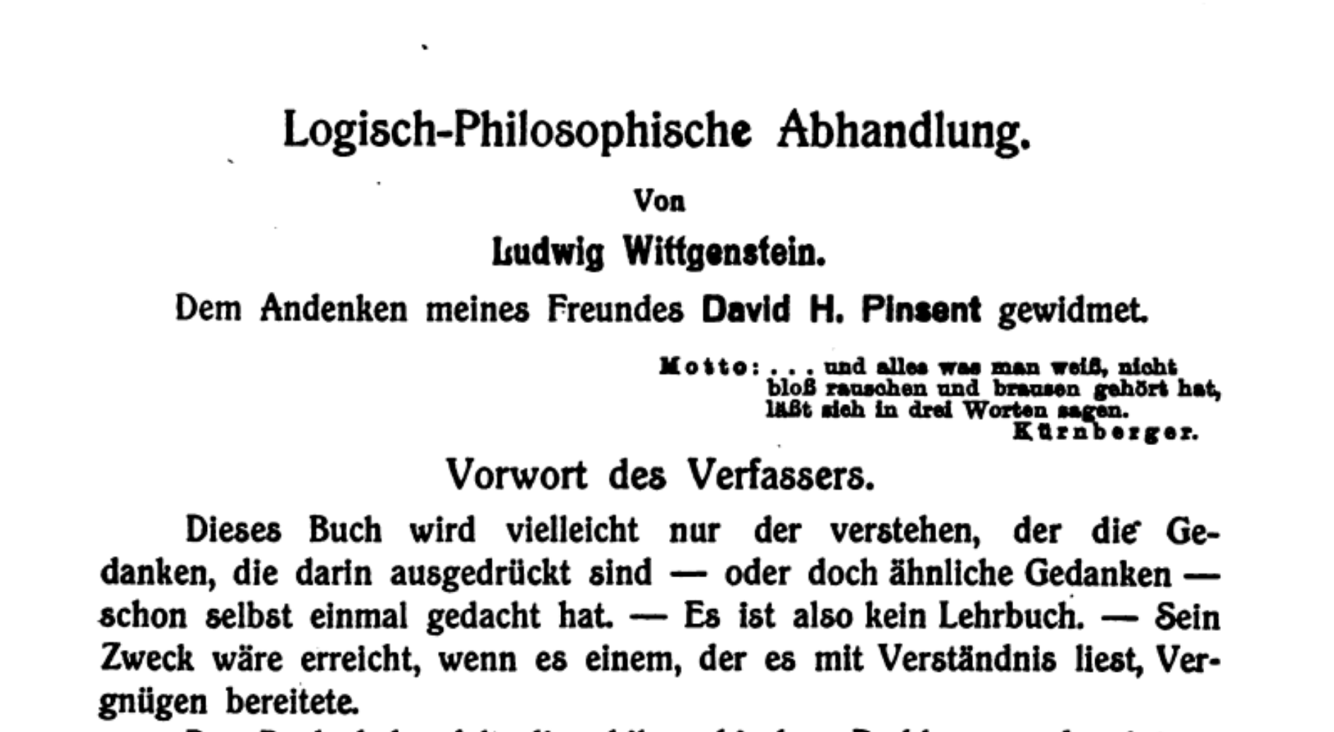 The opening of the Tractatus Logico-Philosophicus, as first published in Annalen der Naturphilosophie, 1921.